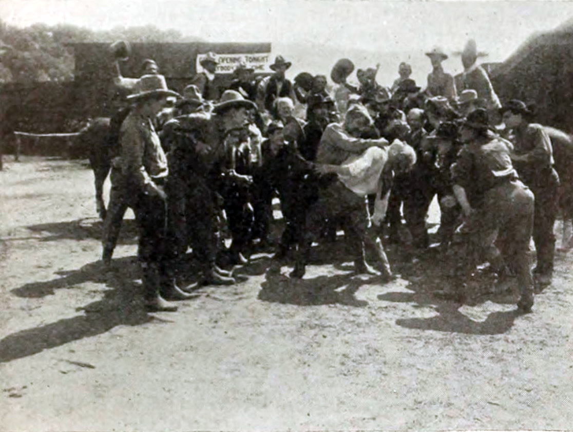 Illustration of a review in The Moving Picture World